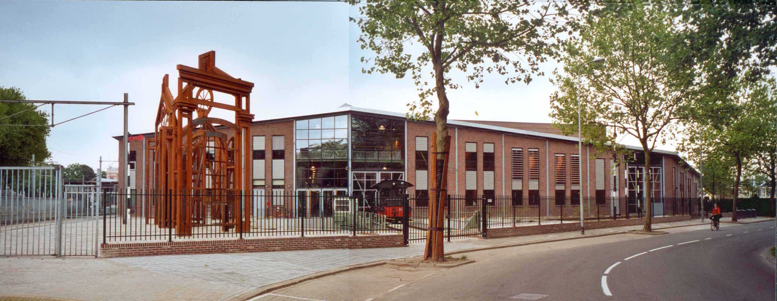 Front of the extension of the Railway Museum in Utrecht